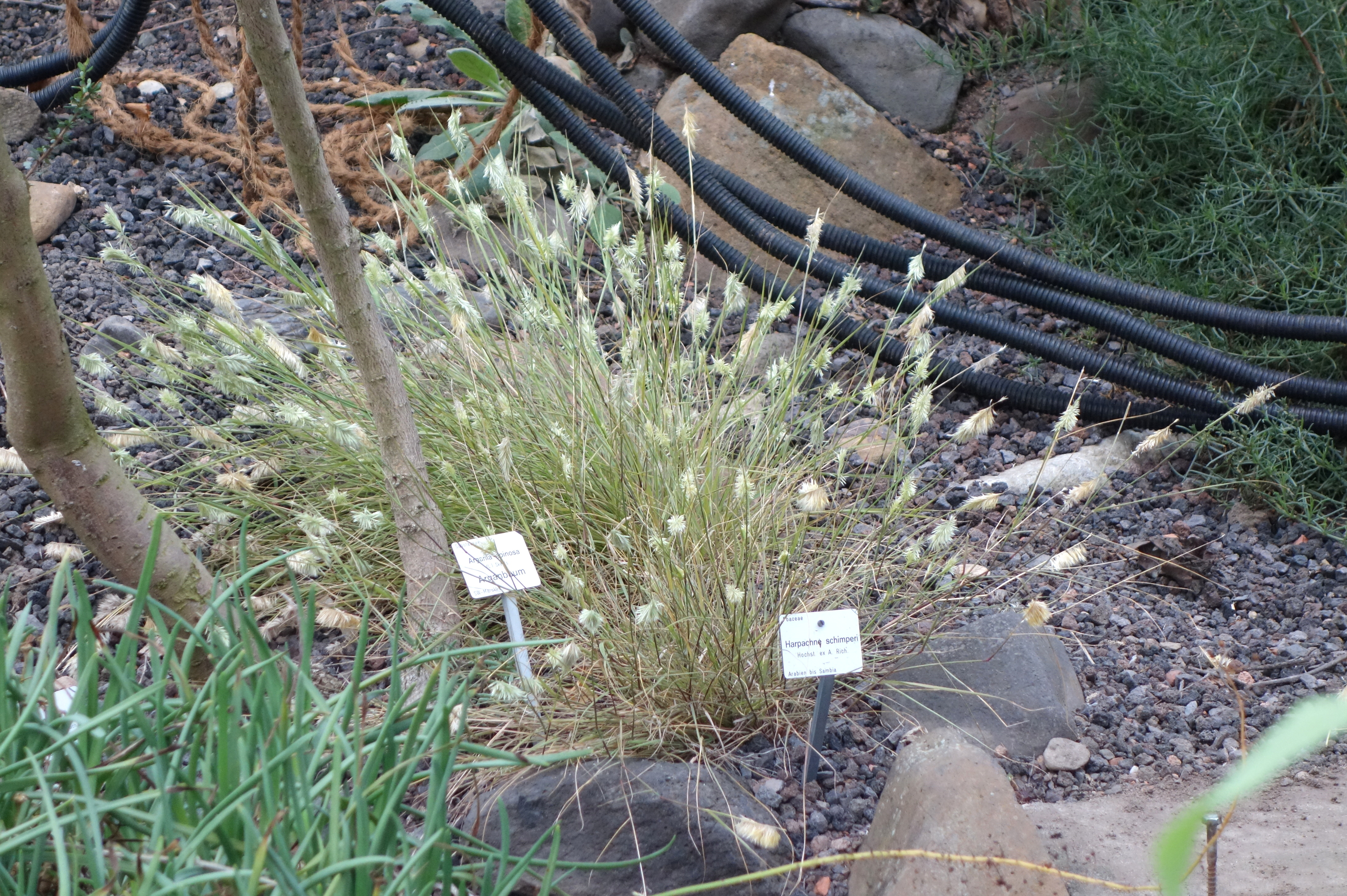 Botanical specimen in the Botanischer Garten, Dresden, Germany.